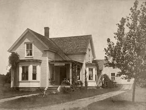 Old Post Office, East Barrington, NH; from a c. 1910 postcard. Inscription: "The post-mistress is Mrs. Ida A. P. Hayes."